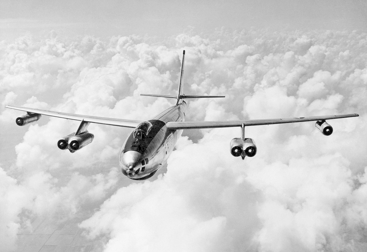 TEAPOT - The Boeing B-47 Stratojet, Strategic Air Command's primary medium bomber, is among the aircraft participating in the current nuclear test series at the Nevada Test Site. Powered by six turbojet engines, this swept wing bomber can fly higher and faster than any bomber in its class. Twenty-nine of these aircraft will be used on various Teapot shots. Most of them are reconnaissance types which are being employed on photographic missions.